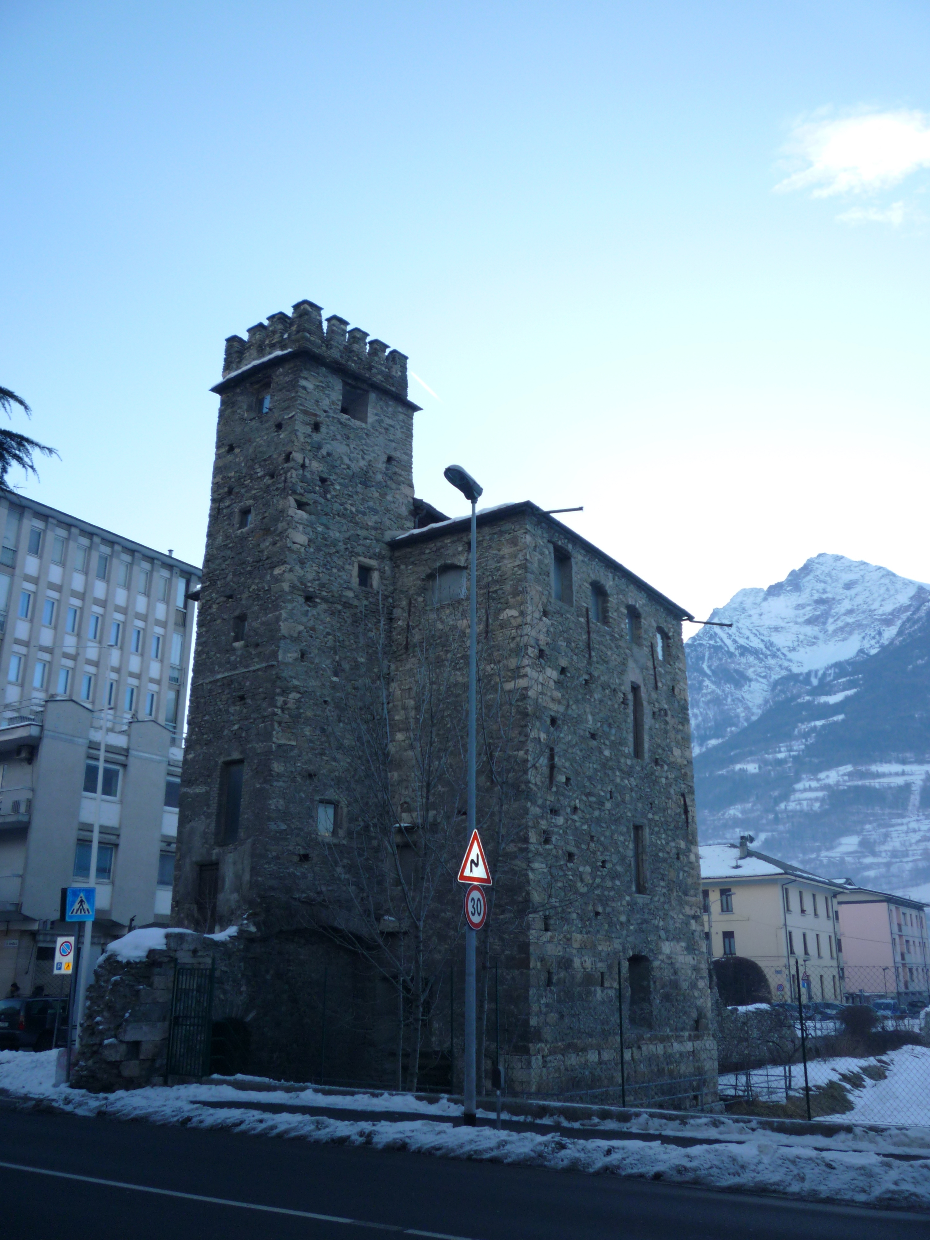 Tour du lépreux in Aosta-Aoste (Aosta Valley)